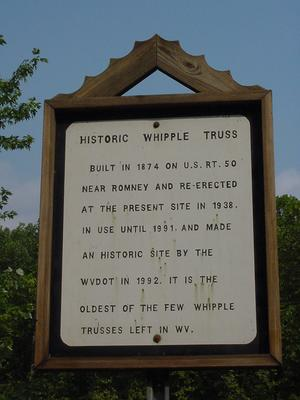 Whipple Truss placard containing its historical past.